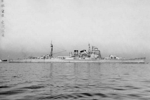 Atago, Takao class heavy cruiser of the Imperial Japanese Navy at Yokosuka Naval Base.